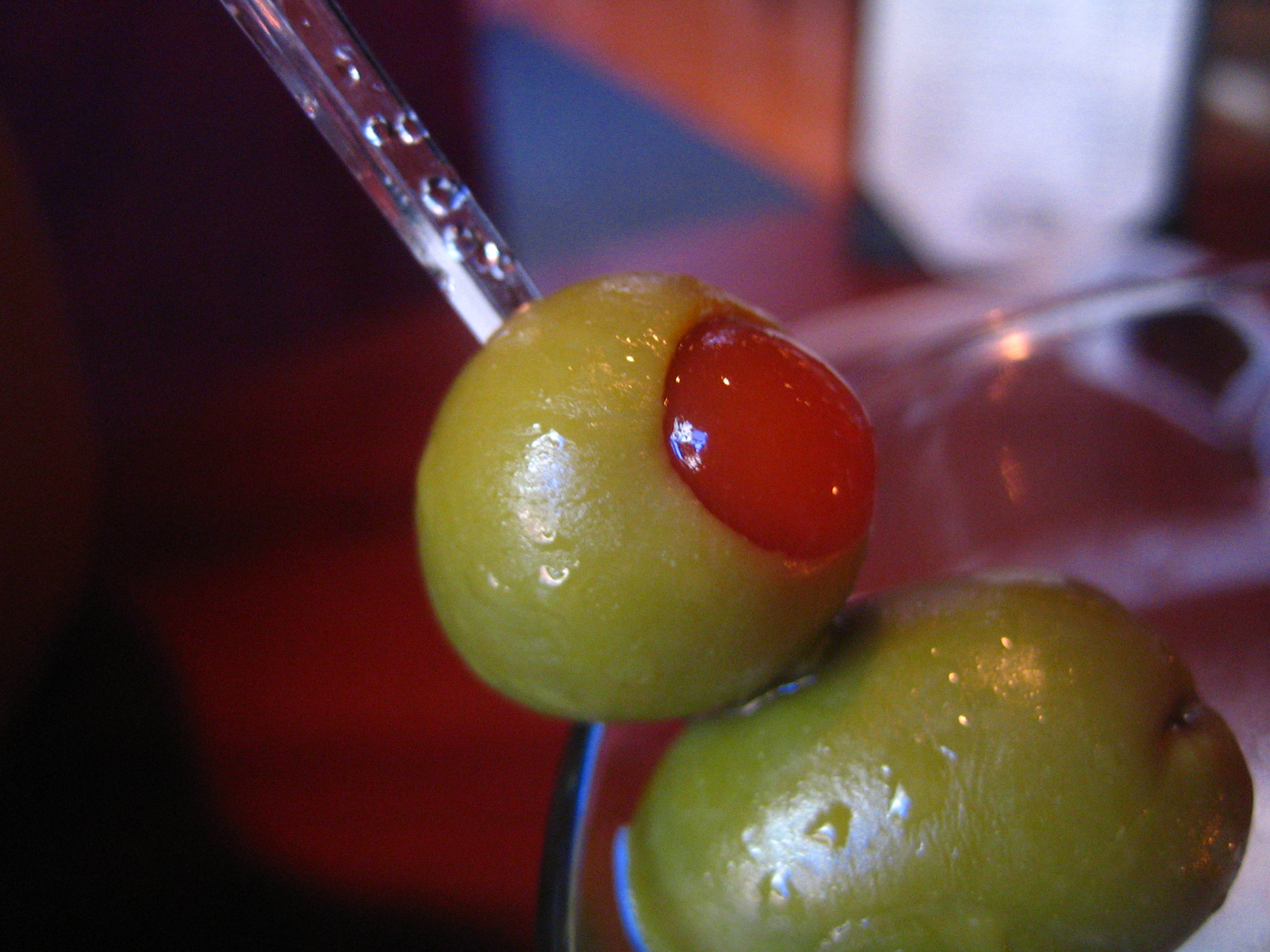 olives (Vancouver, Canada, BC, British Columbia, 2006, travel, bar, cocktail, booze, liquor, olive, olives, martini, pimento, O'Douls )